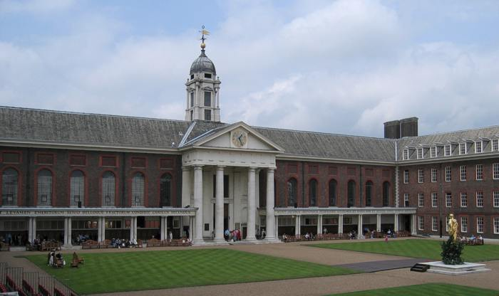 Figure Court of Royal Hospital Chelsea. Photograph taken by Michael Reeve, 10 June 2004.